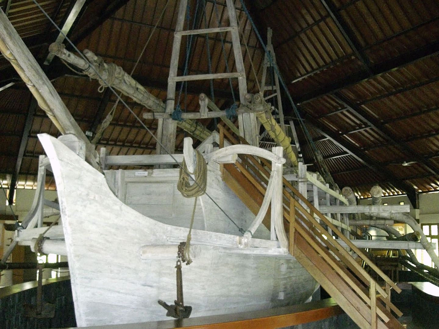 The full scale reconstruction of ancient vessel depicted on 8th century Borobudur bas reliefs. The ship is named Samudra Raksa (defender of seas) become the centerpiece of Samudra Raksa museum in Borobudur Archaeological park, Central Java, Indonesia. The ship had successfully undergone the voyage "Borobudur Ship Expedition" from Jakarta, Indonesia to Accra, Ghana, West Coast of Africa, in 2003-2004.